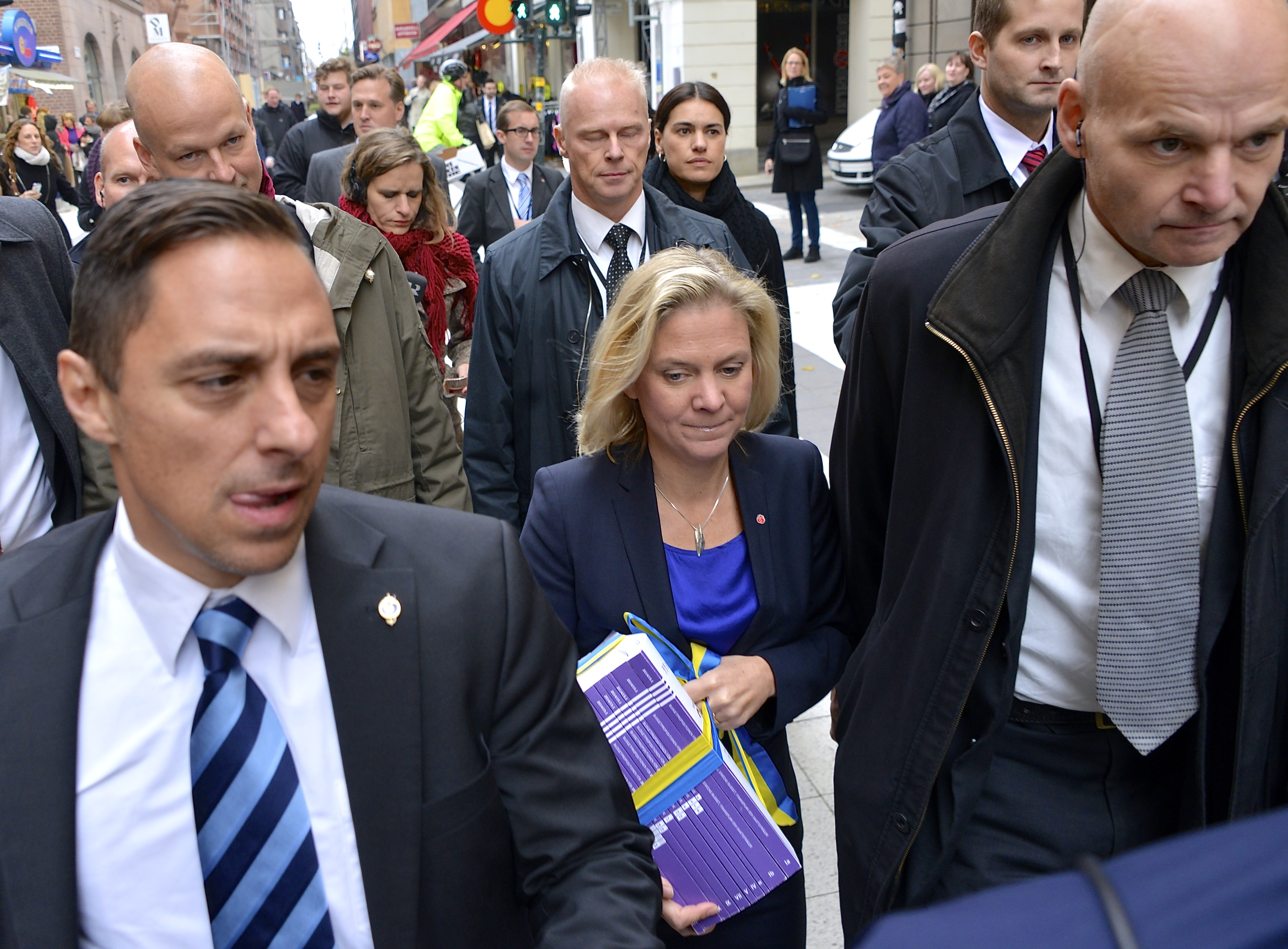 Swedish Minister for Finance Magdalena Andersson, with the 2015 budget proposition, during the walk to Parliament, October 23th, 2014.